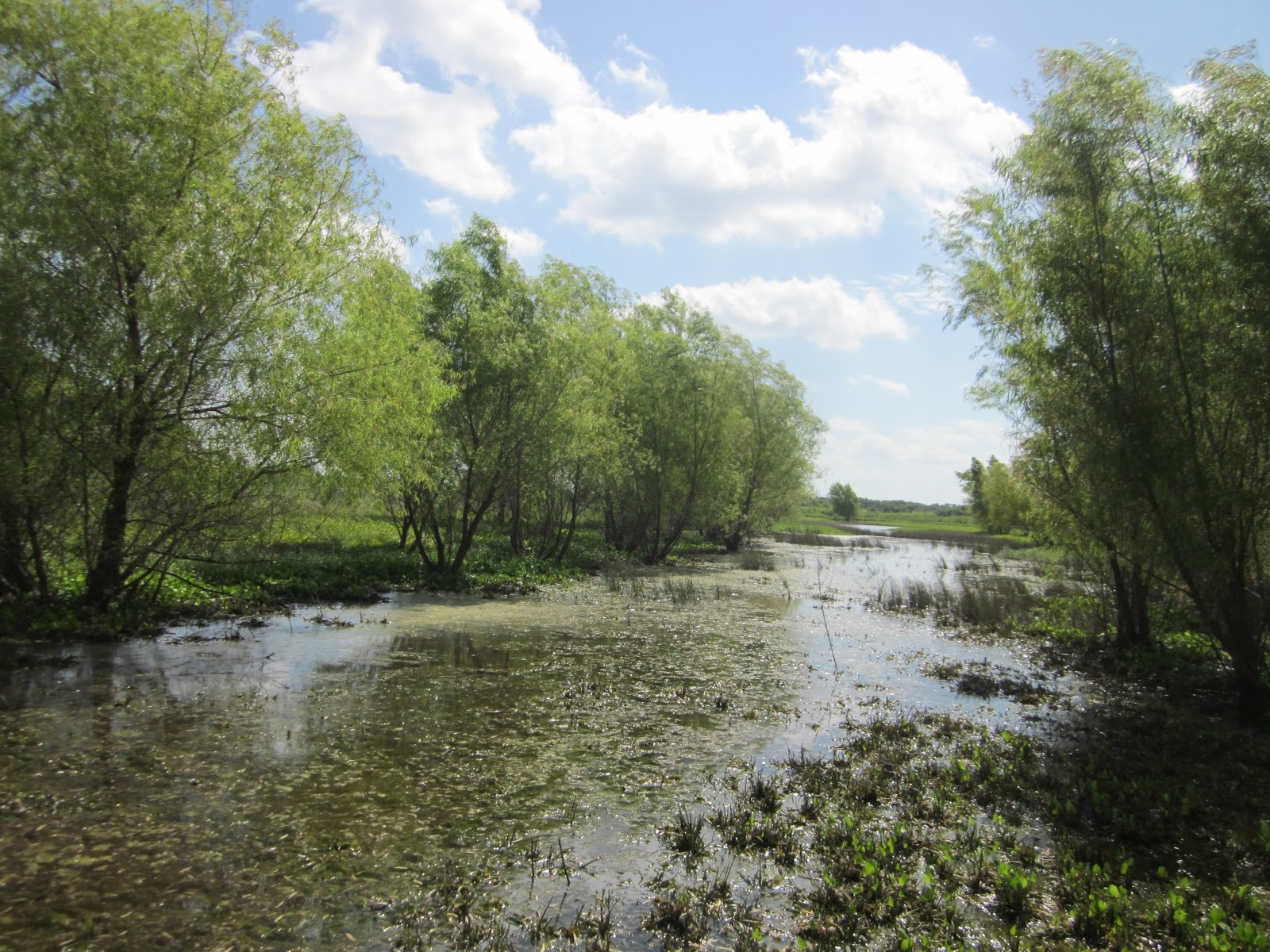 This is an image of several Black Willow (Salix Nigra) in their natural habitat in a wetland in Cameron, Texas. This photo was taken by James P.S. Case.